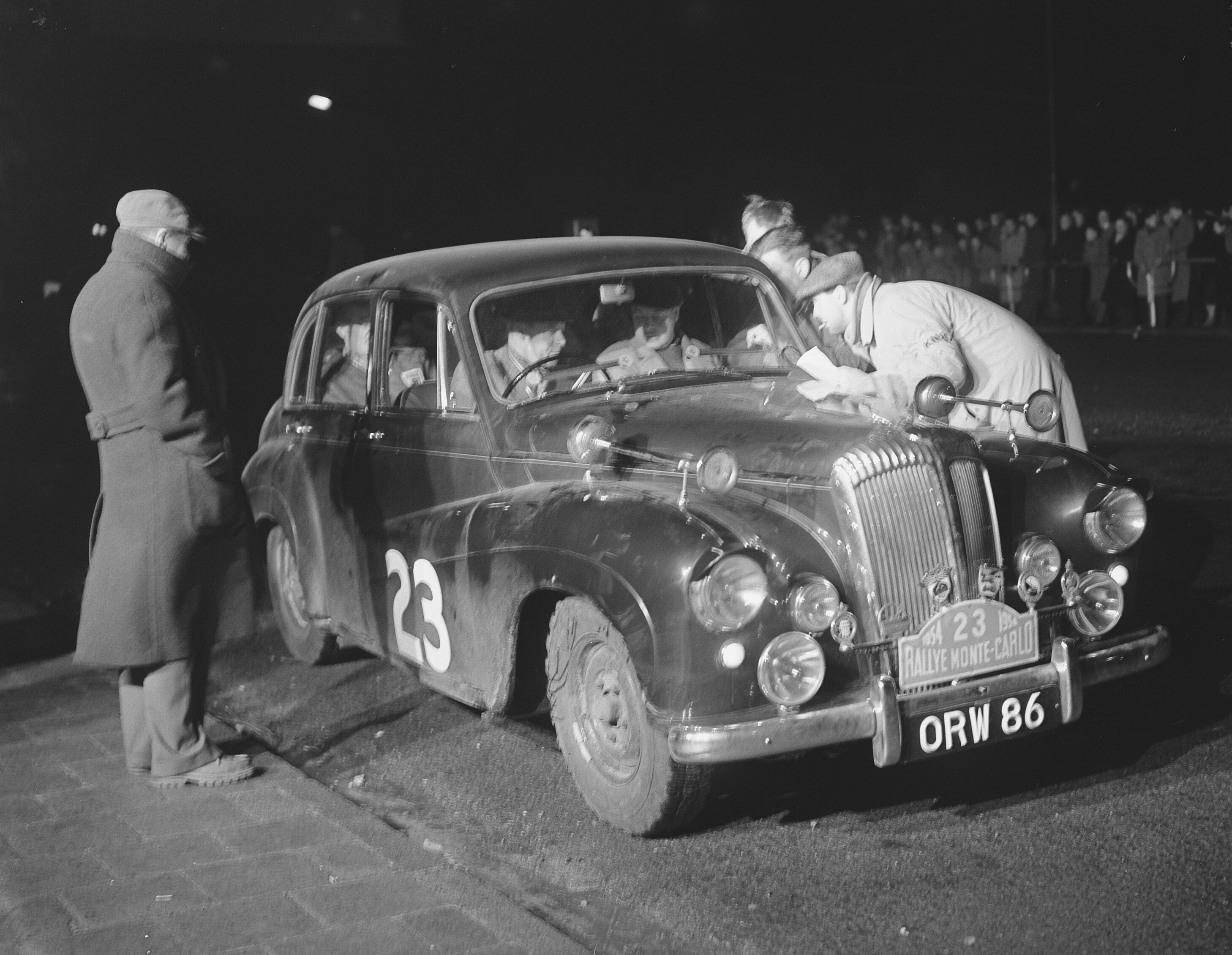 Entry #23 at the 1954 Rallye Monte Carlo was a Daimler Conquest (UK license "ORW 86"), entered by Wisdom (Tommy Wisdom?[1]) and Jefferies[2].